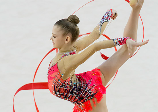 Aleksandra Soldatova, a Russian rhythmic gymnast.